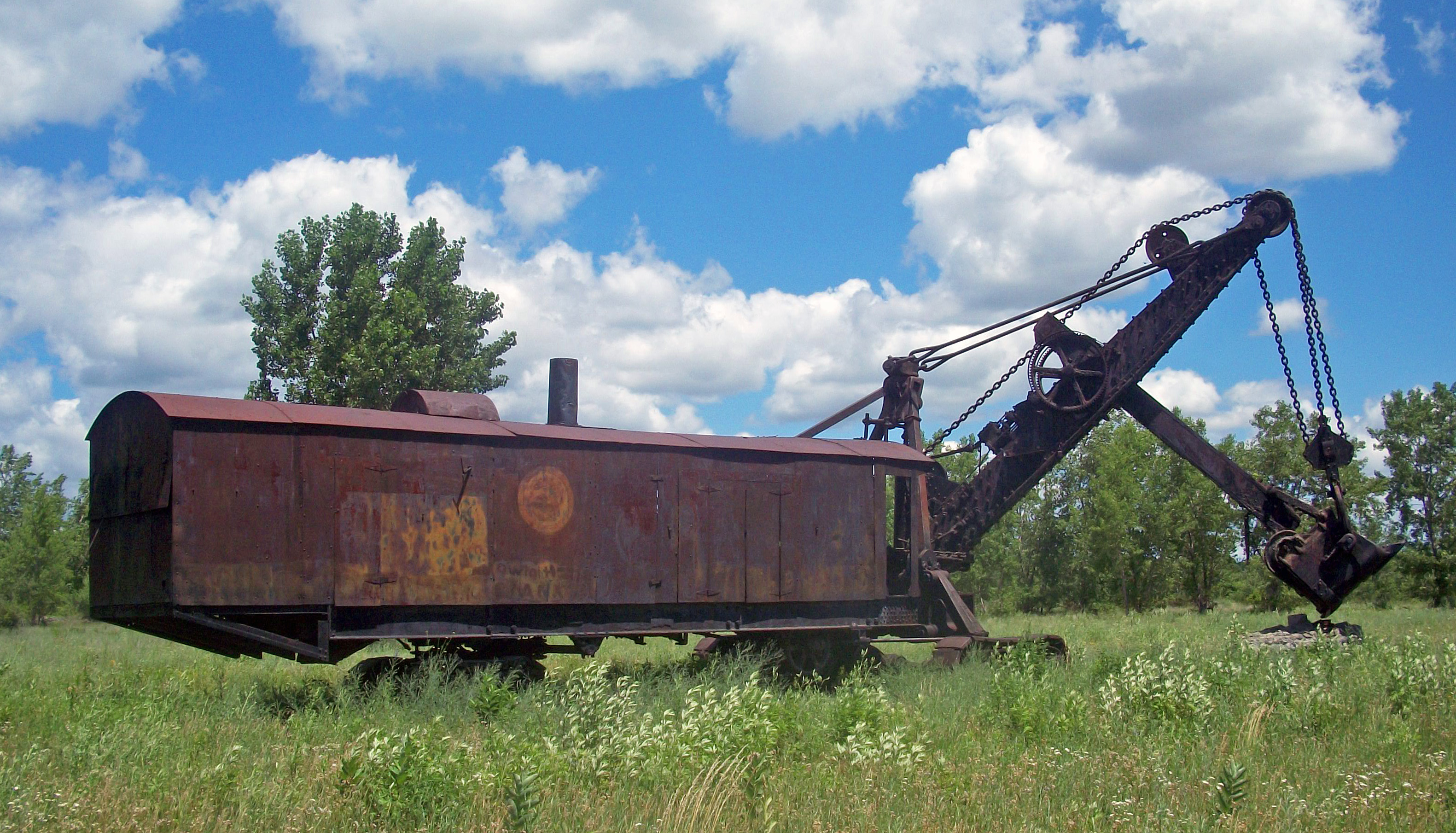 Marion Steam Shovel, Le Roy, NY, USA. Only known remaining Marion Model 91 shovel. May have been used in excavating the Panama Canal and is possibly the largest remaining steam shovel